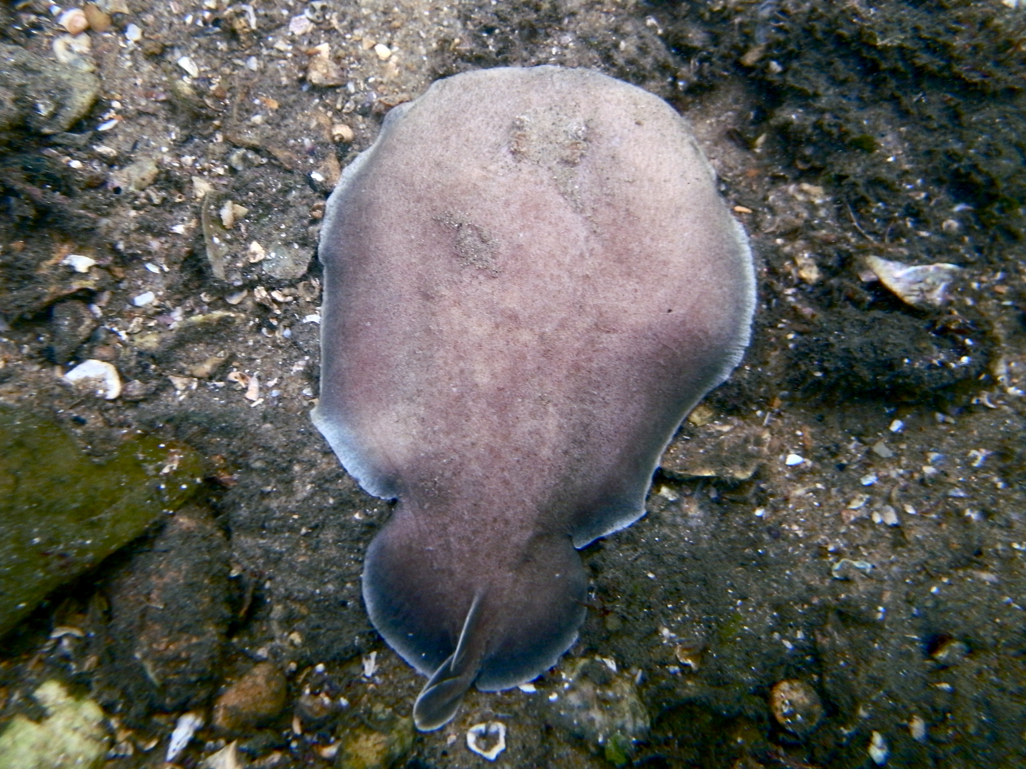 Coffin ray (Hypnos monopterygius) in his wild habitat, 1.5m depth, close to shore at Parsley Bay, Sydney, NSW, Australia.